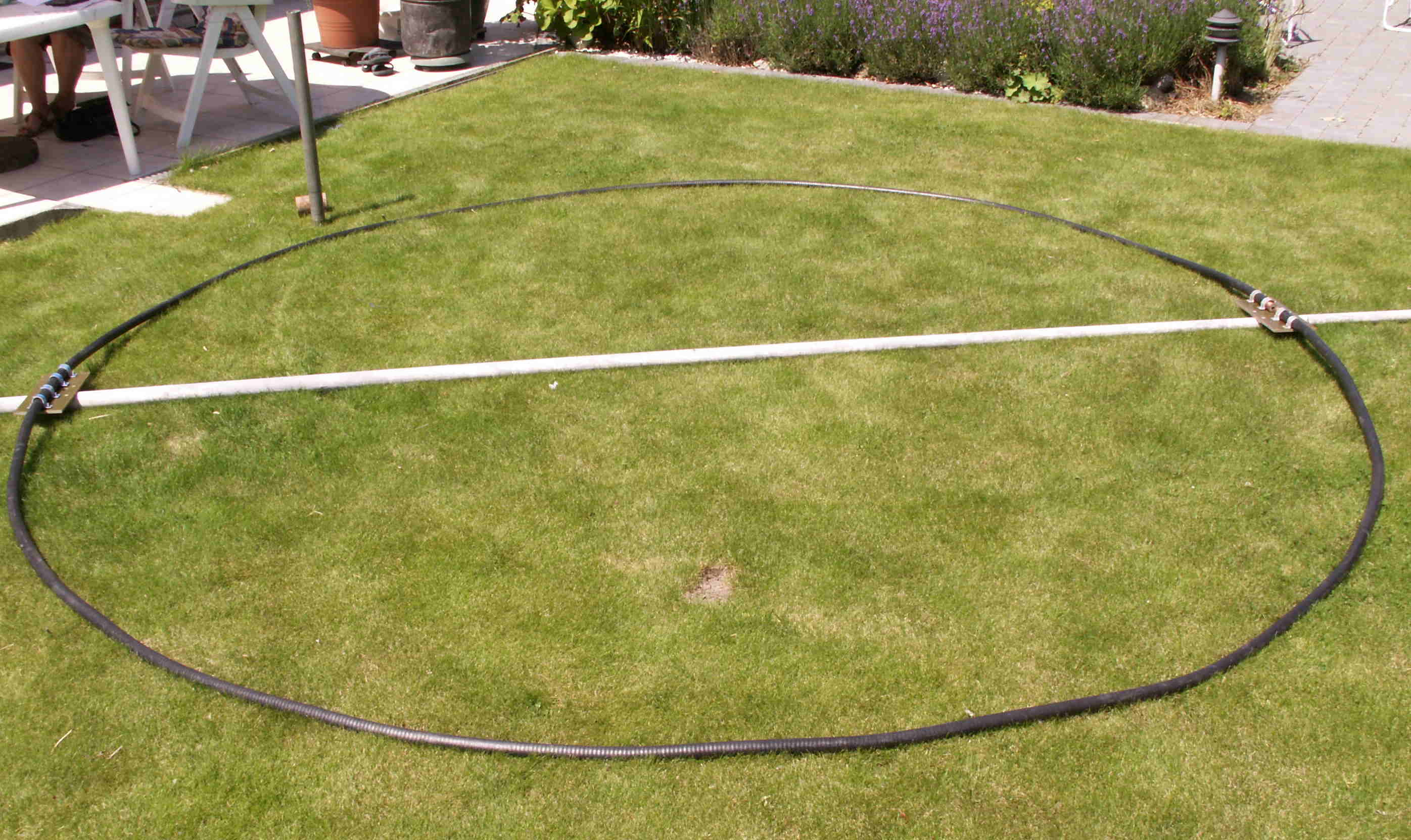 A DIY Loop Antenna under construction. This antenna is very selective/directional and is used (at least here) for analogue radio broadcasting.